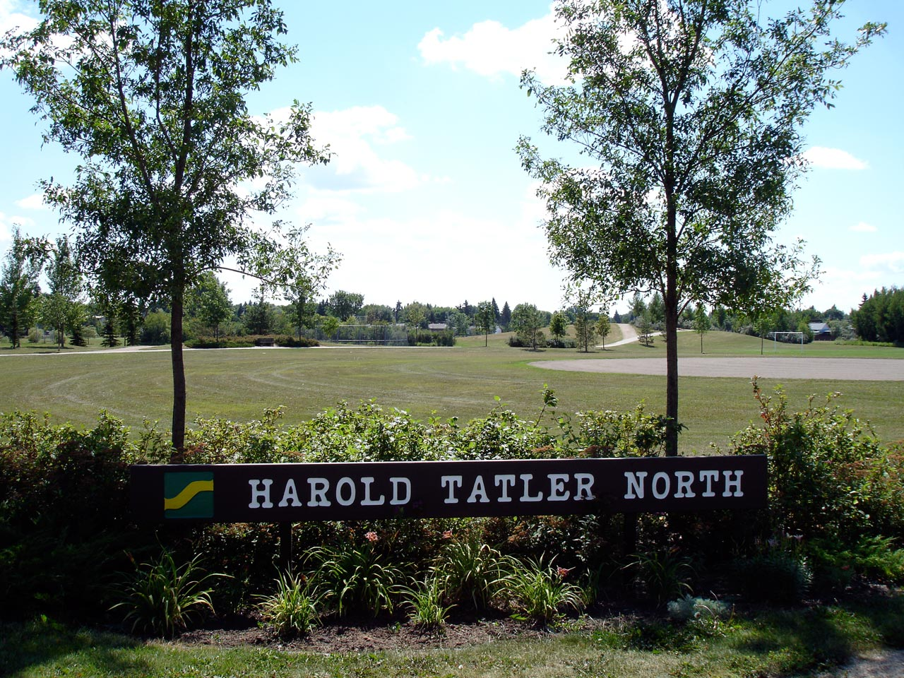 Harold Tatler Park North, a public park in the Nutana Park neighbourhood of Saskatoon, Saskatchewan, Canada.